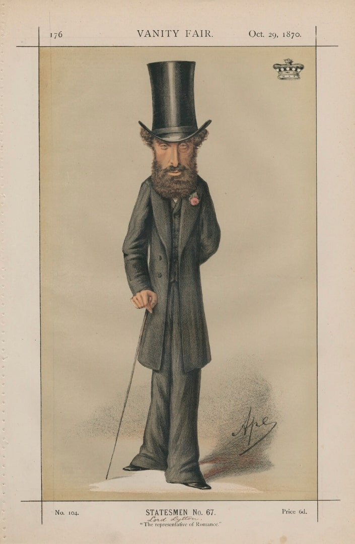 Caricature of Edward Bulwer-Lytton, 1st Baron Lytton. Caption read "The representative of Romance".